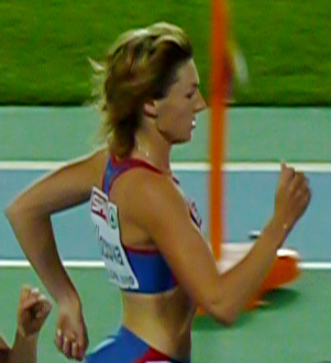 2010 European Championships in Athletics - Lucia Klocová in the final on 800 m.